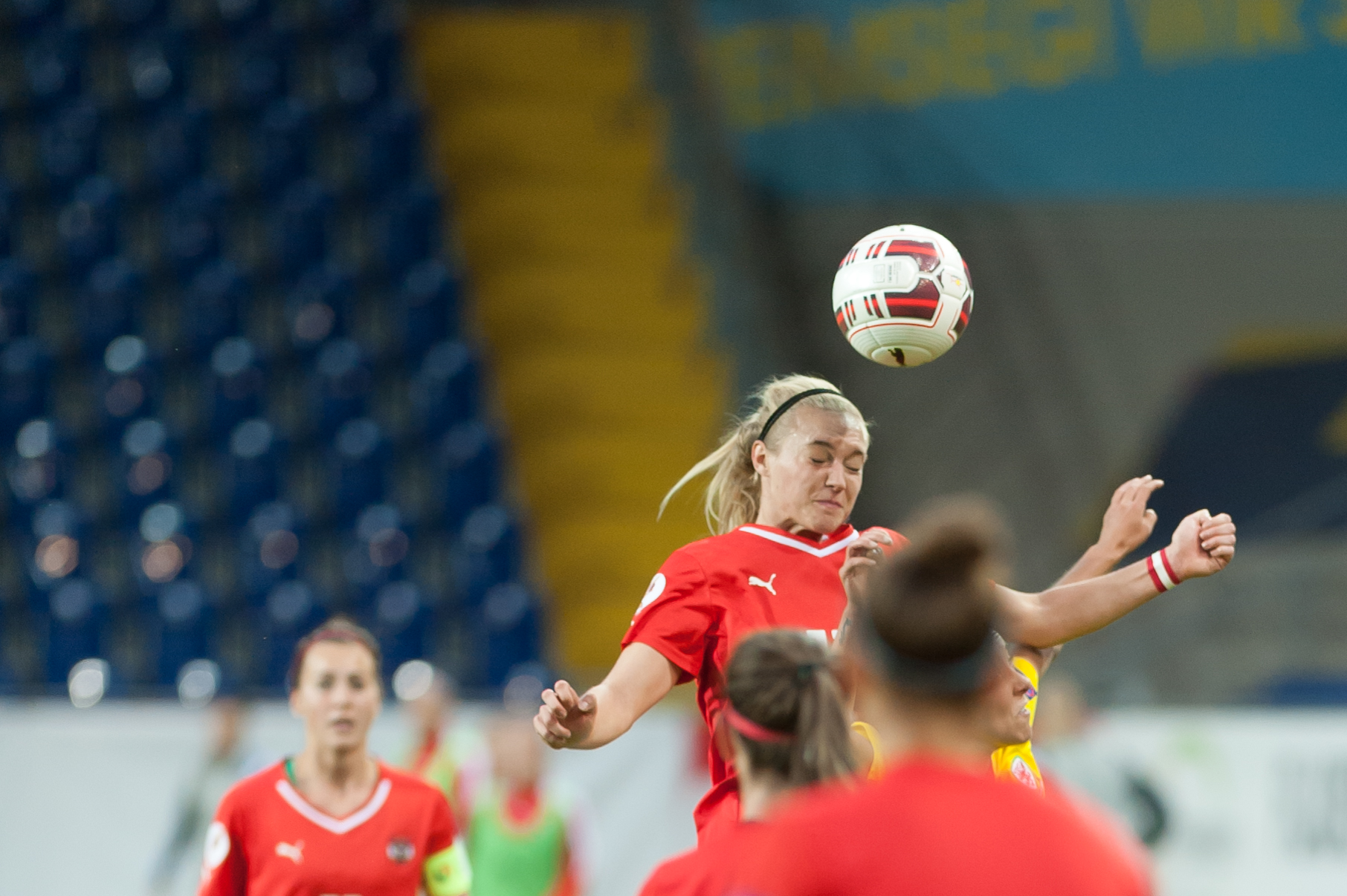 Women's Euro Qualification Austria vs. Wales, 2015-09-22, St. Pölten, Lower Austria